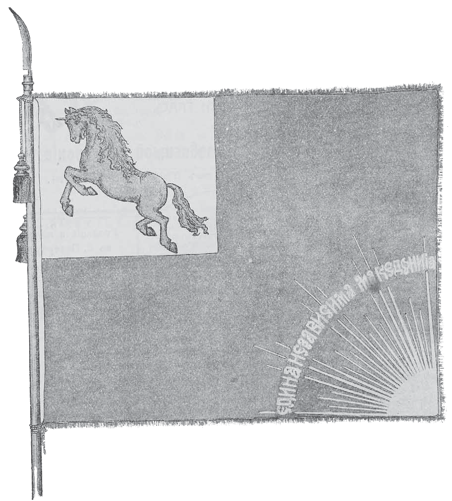 Macedonian flag of the Macedonian emigrants in Russia.